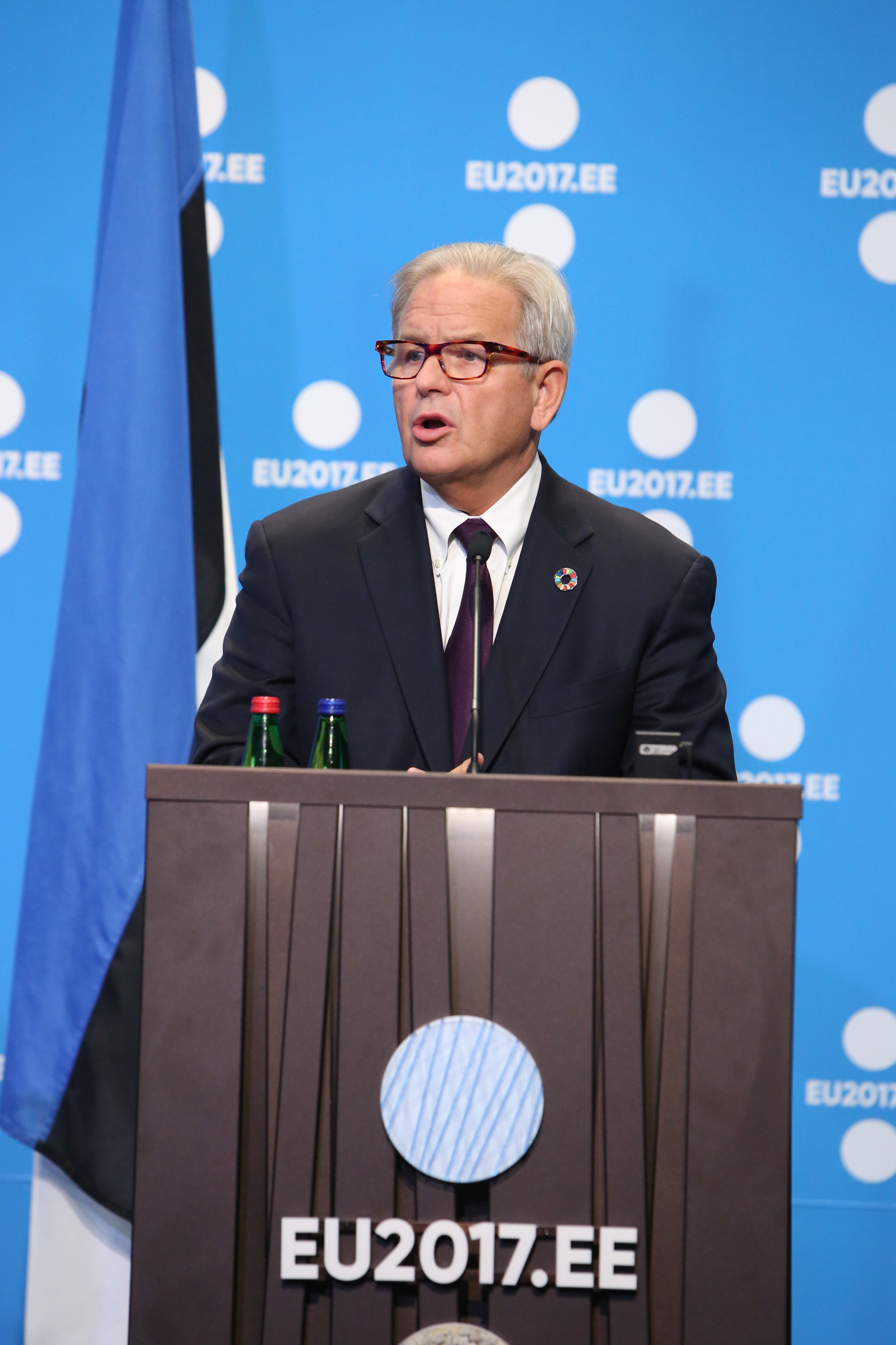 Chad Holliday, Chairman Royal Dutch Shell, Shell, Speaker (Climate Change)